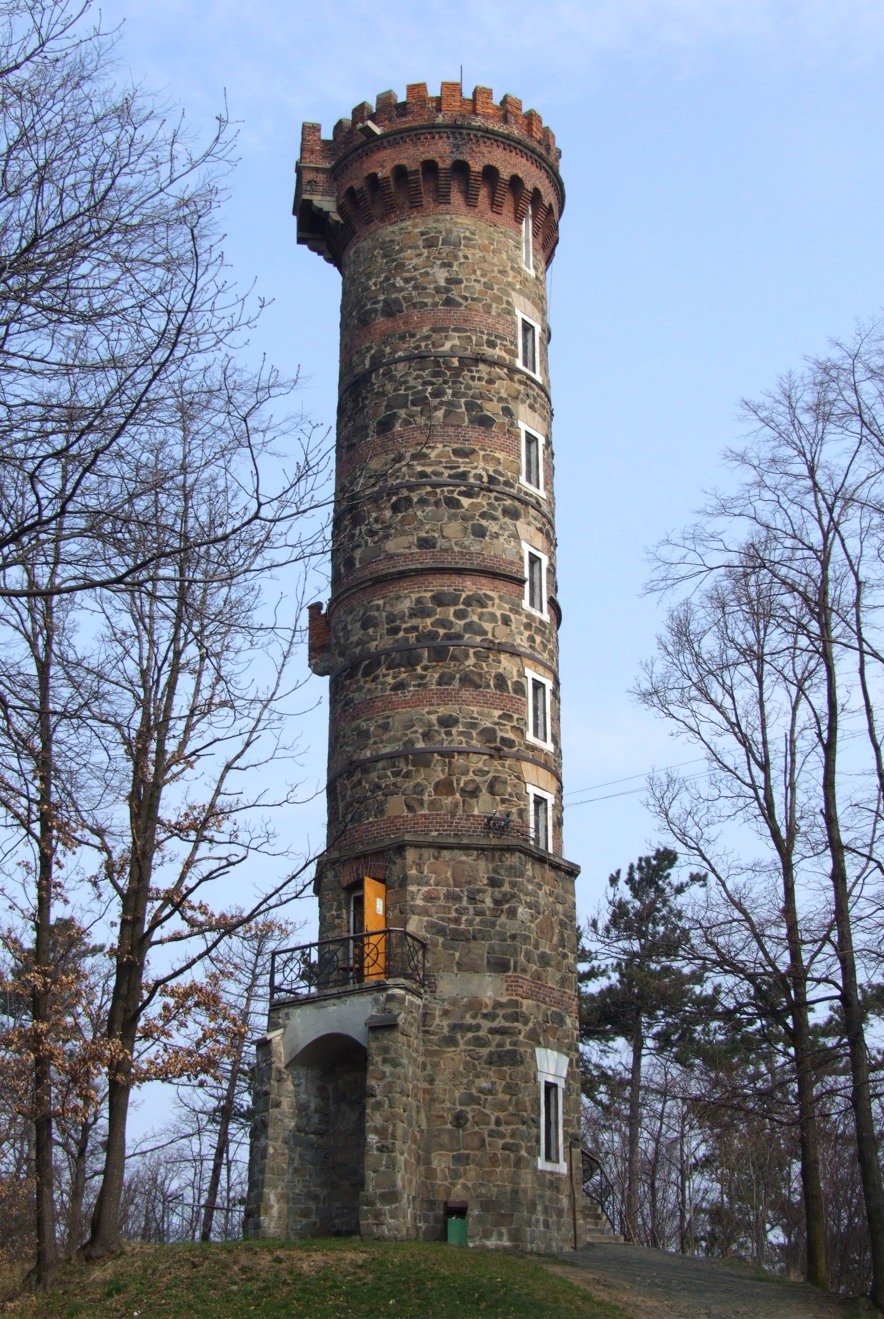 Obserwation tower Cvilín (Liechtensteinwarte), Krnov, Czech Republic